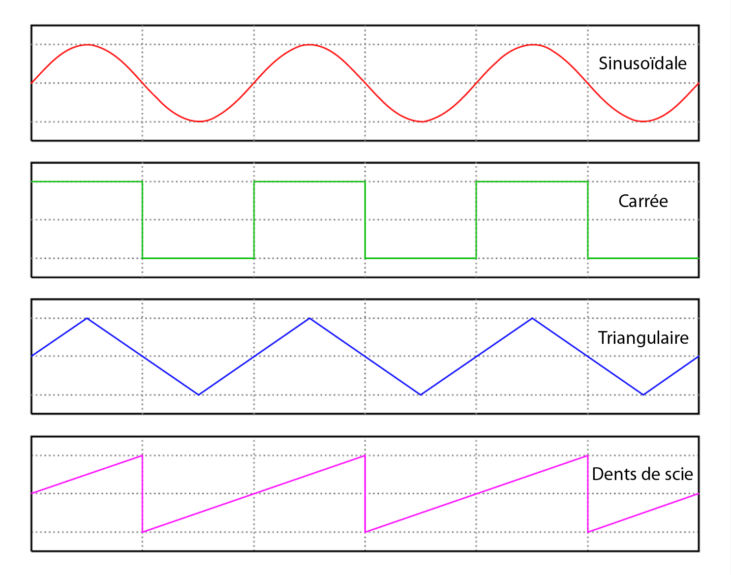 Several waveforms from Waveforms.svg by Omegatron transleted into French.